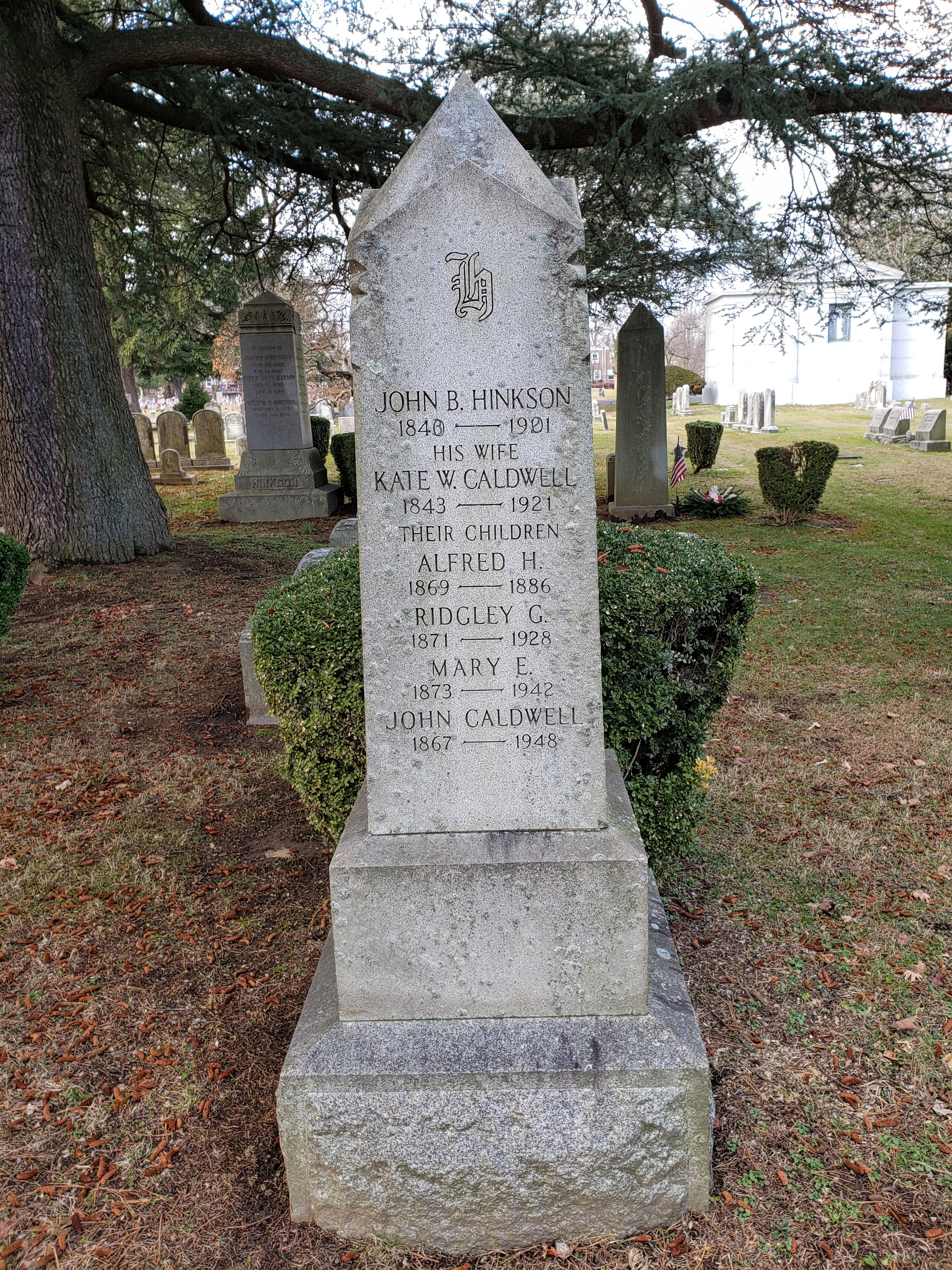 John B Hinkson grave at Chester Rural Cemetery in Chester, Pennsylvania. Photo taken January 2020.